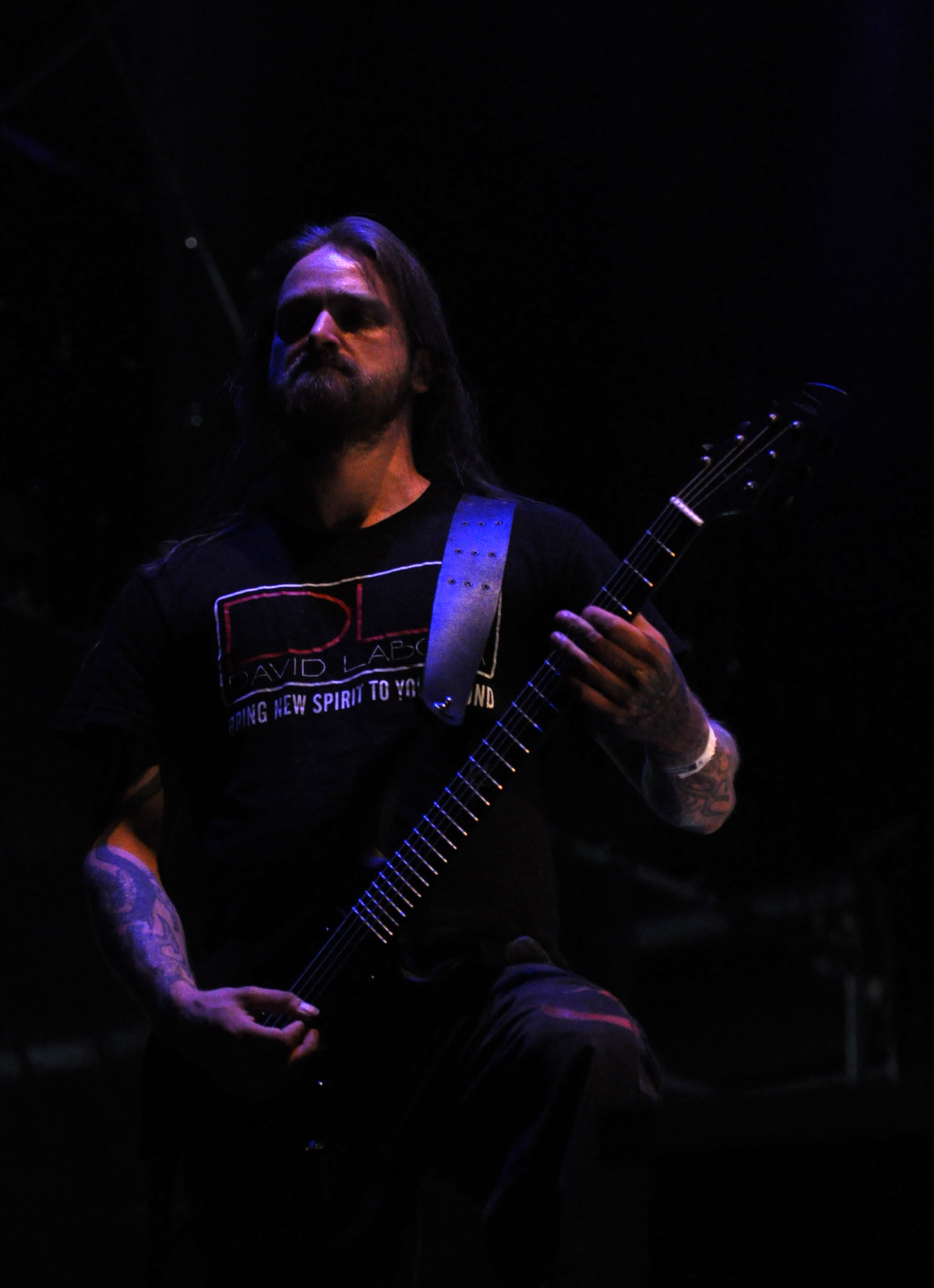 Hypocrisy at Party.San Metal Open Air 2013